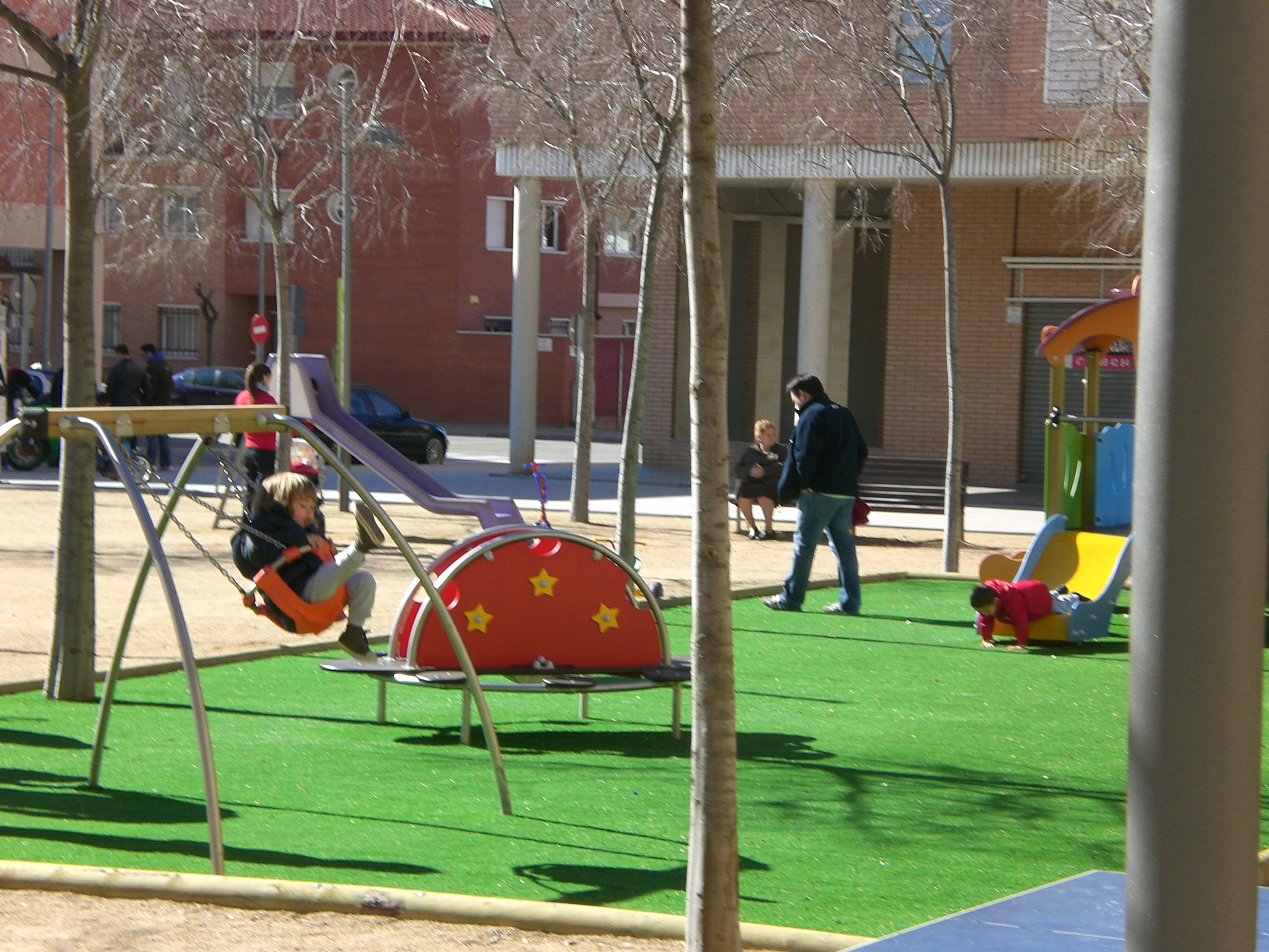 Europe square @ castellar del Vallès